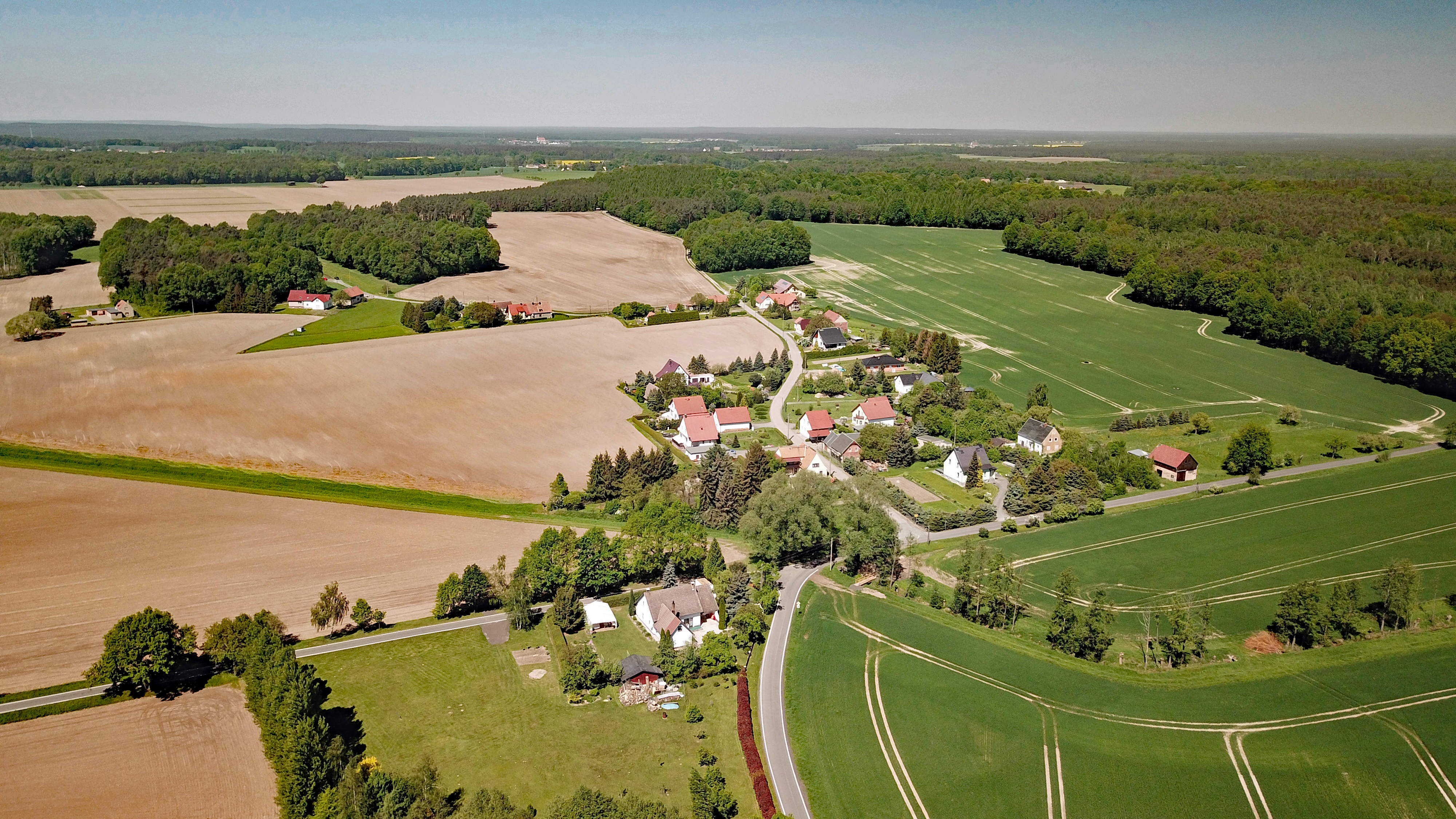 Neu-Puschwitz (Puschwitz, Saxony, Germany) Hornjoserbsce: Powětrowy wobraz Nowych Bóšic